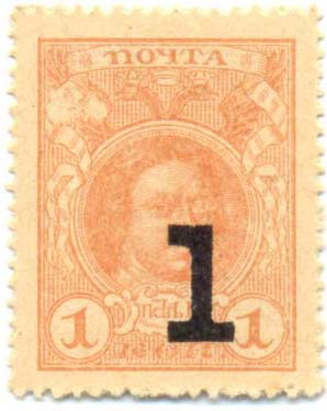 Stamp money of Russia, 1917